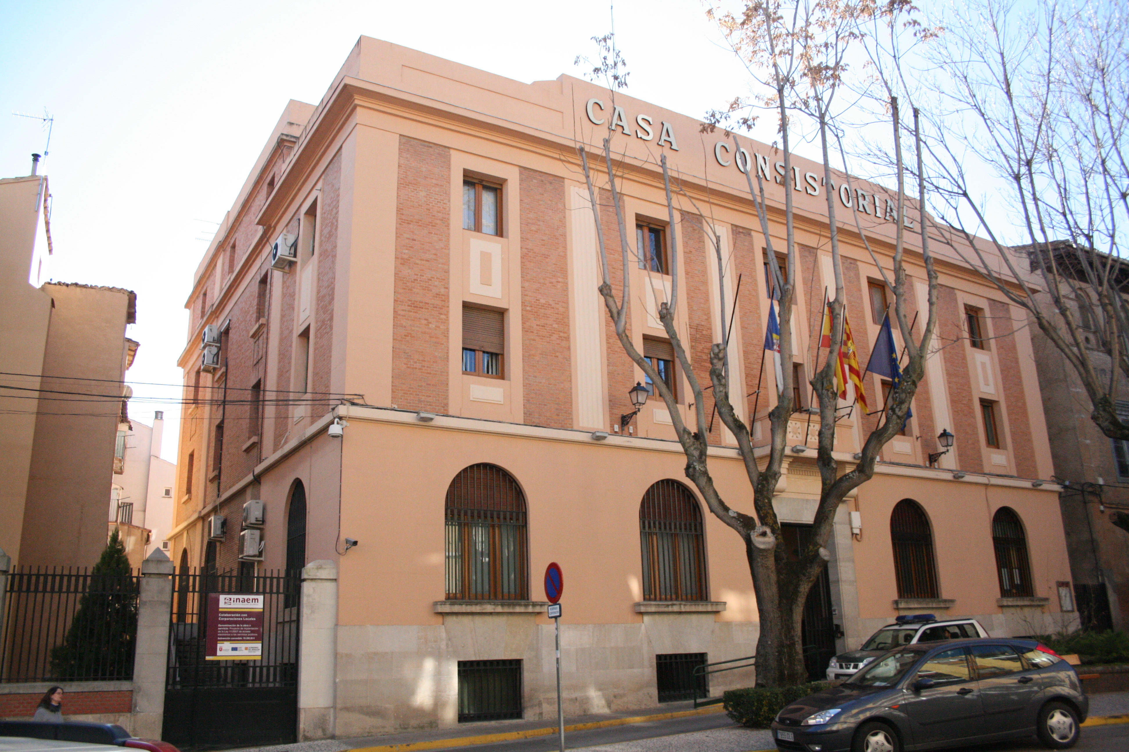 Town hall of Calatayud, Spain